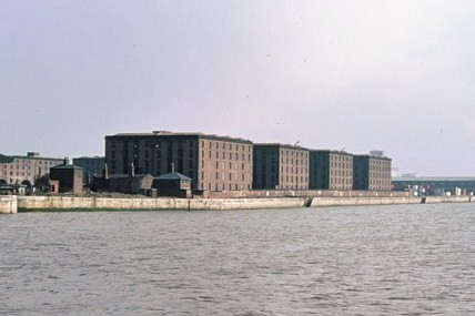 Liverpool Albert Docks 1979 Albert Docks' warehouses and the southern continuation of the docks area as they appeared in April 1979 from a Birkenhead ferry. At the time, the whole area was derelict.